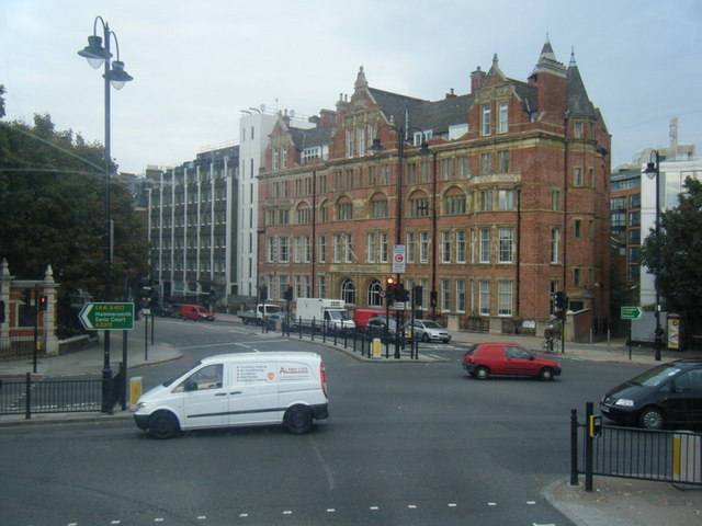 Lister Hospital, Chelsea Bridge Road.